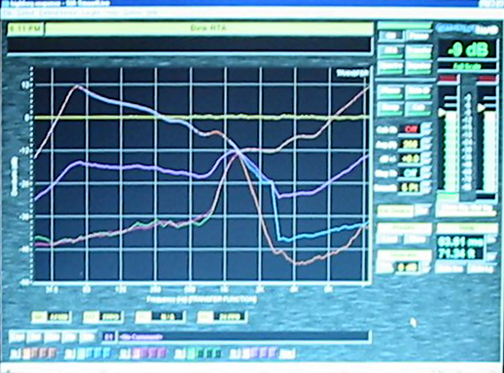 External photograph of a computer screen showing Smaart v.4 in transfer function mode after having captured several traces of an active crossover.